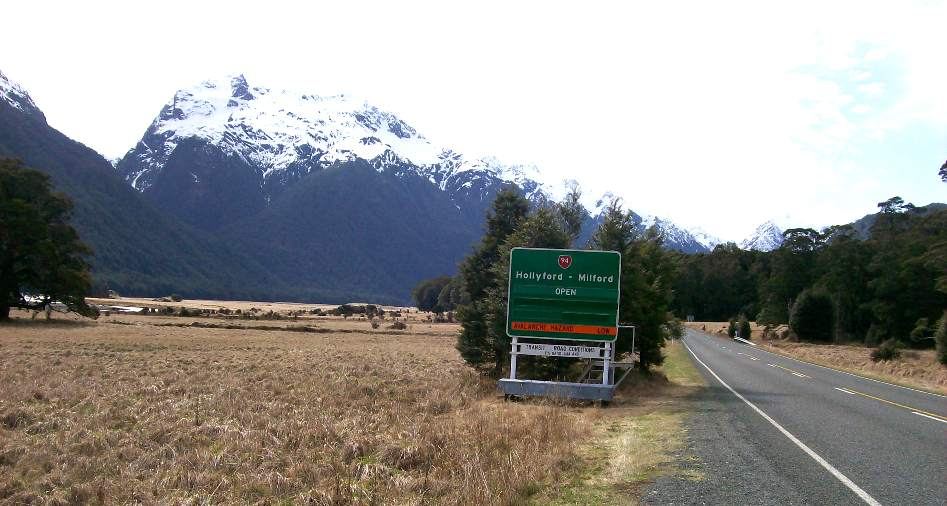 The Transit New Zealand Road Information Sign at Knobs Flat, the Milford Road. Knobs Flat, Eglinton Valley, Fiordland National Park.